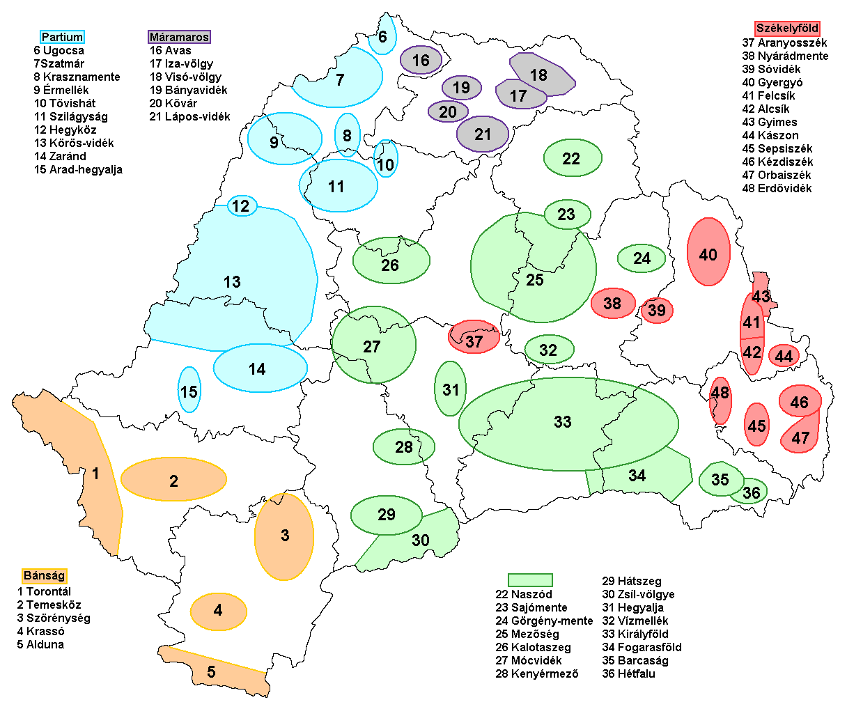 A Hungarian view on the ethnographic regions in Transylvania, Romania